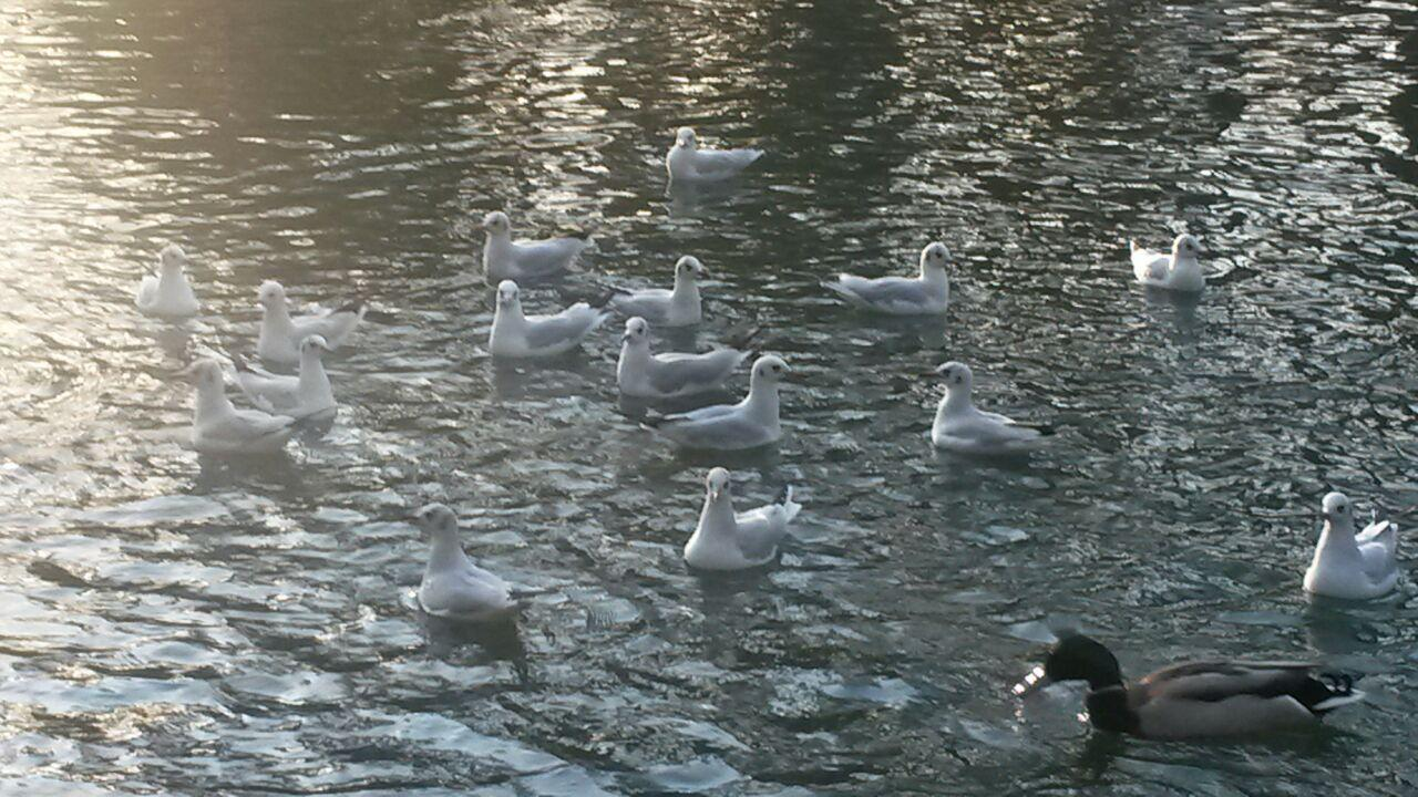 Gulls in Monza Park (ITALY) MONZA